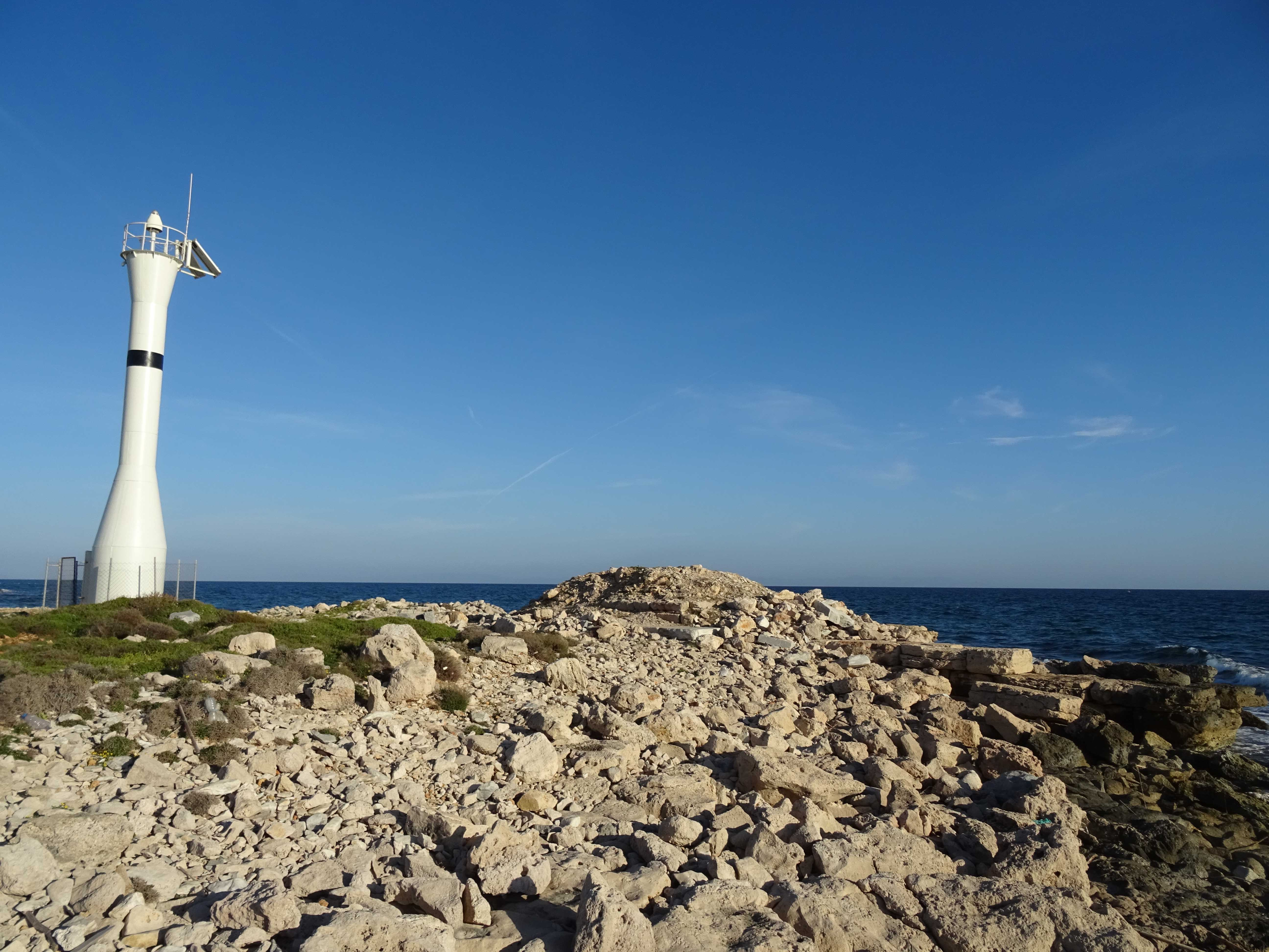 The remains of the altar of Poseidon and the lighthouse next to Didyma.